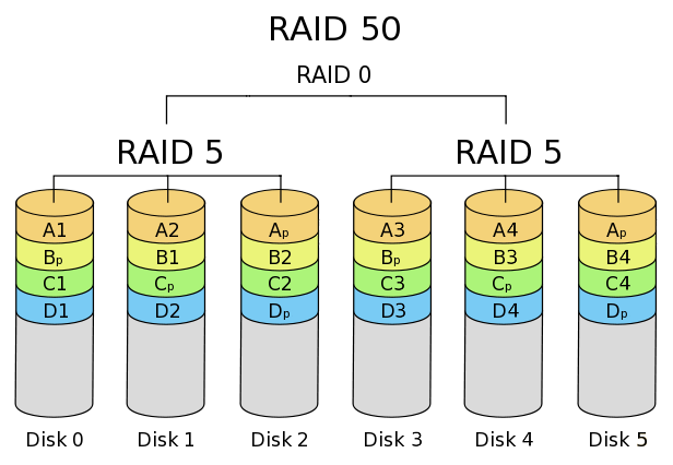 Creating a RAID 50 array, the three hard drives into a group composed of a RAID 5 array, the storage capacity of a RAID 5 array is a single hard drive storage capacity of 2 times. Repeat this process will constitute another another three RAID 5 disk array. Finally, the two RAID 5 arrays, a RAID 0 array.